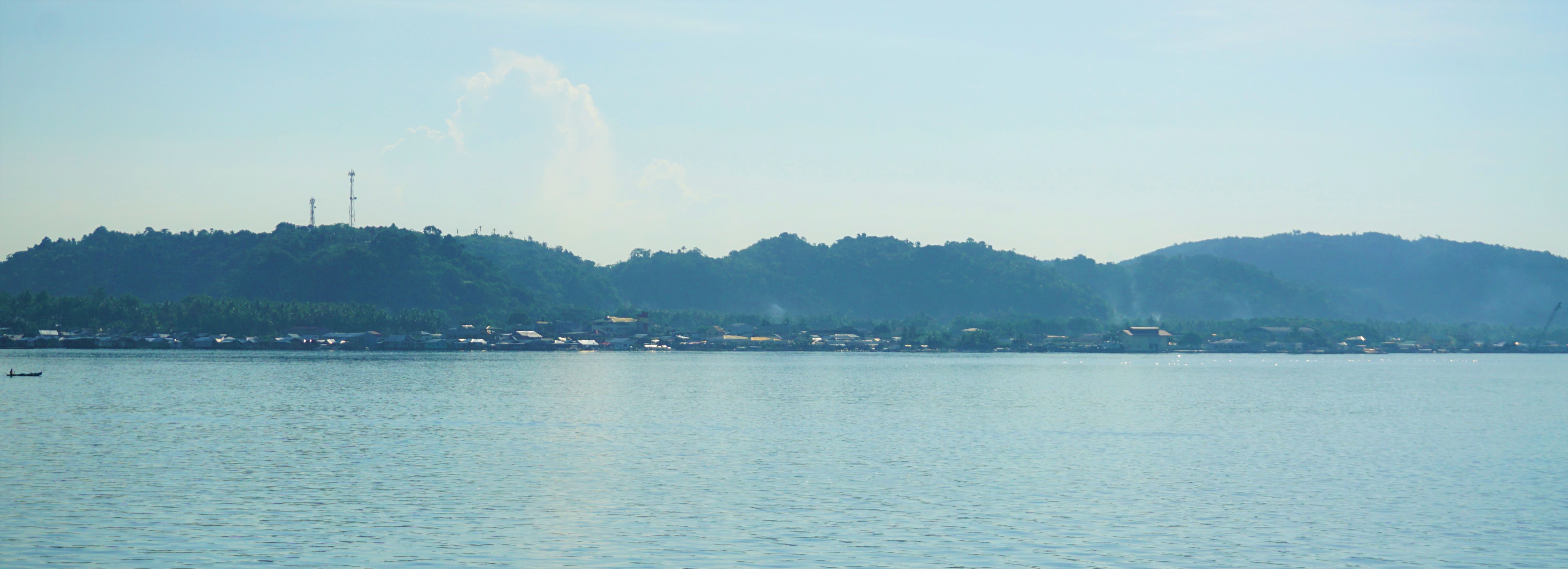 View of the municipality of Dapa from Philippine Sea.